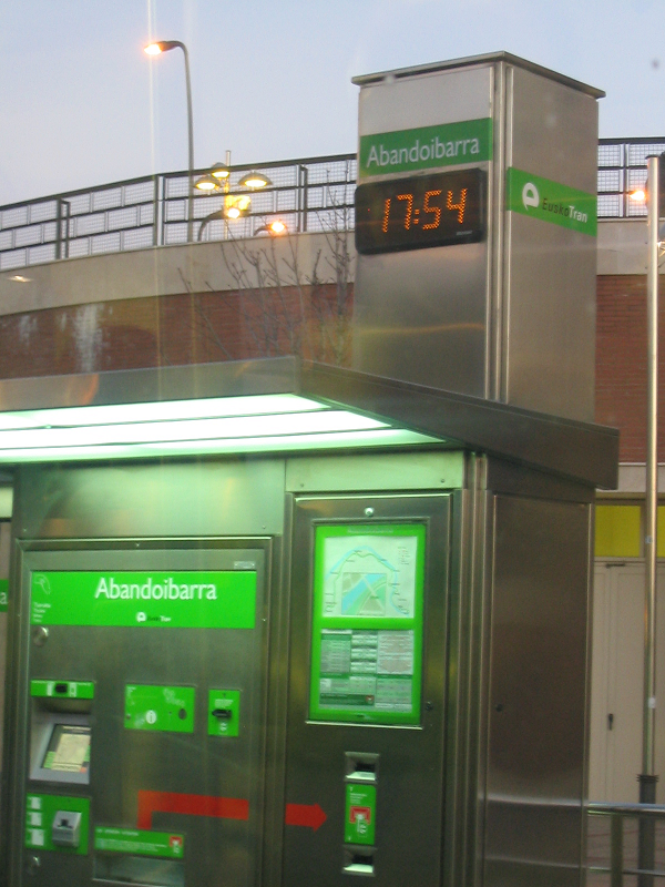 Abandoibarra (Bilbao) tram stop.